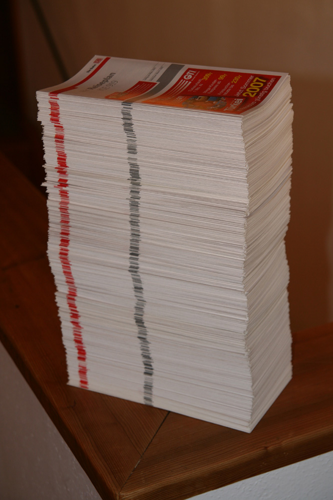 A pile of Ihr Reiseplan leaflets. These leafleats are available on almost all long-distance trains in Germany. This stack includes one copy of each of them.